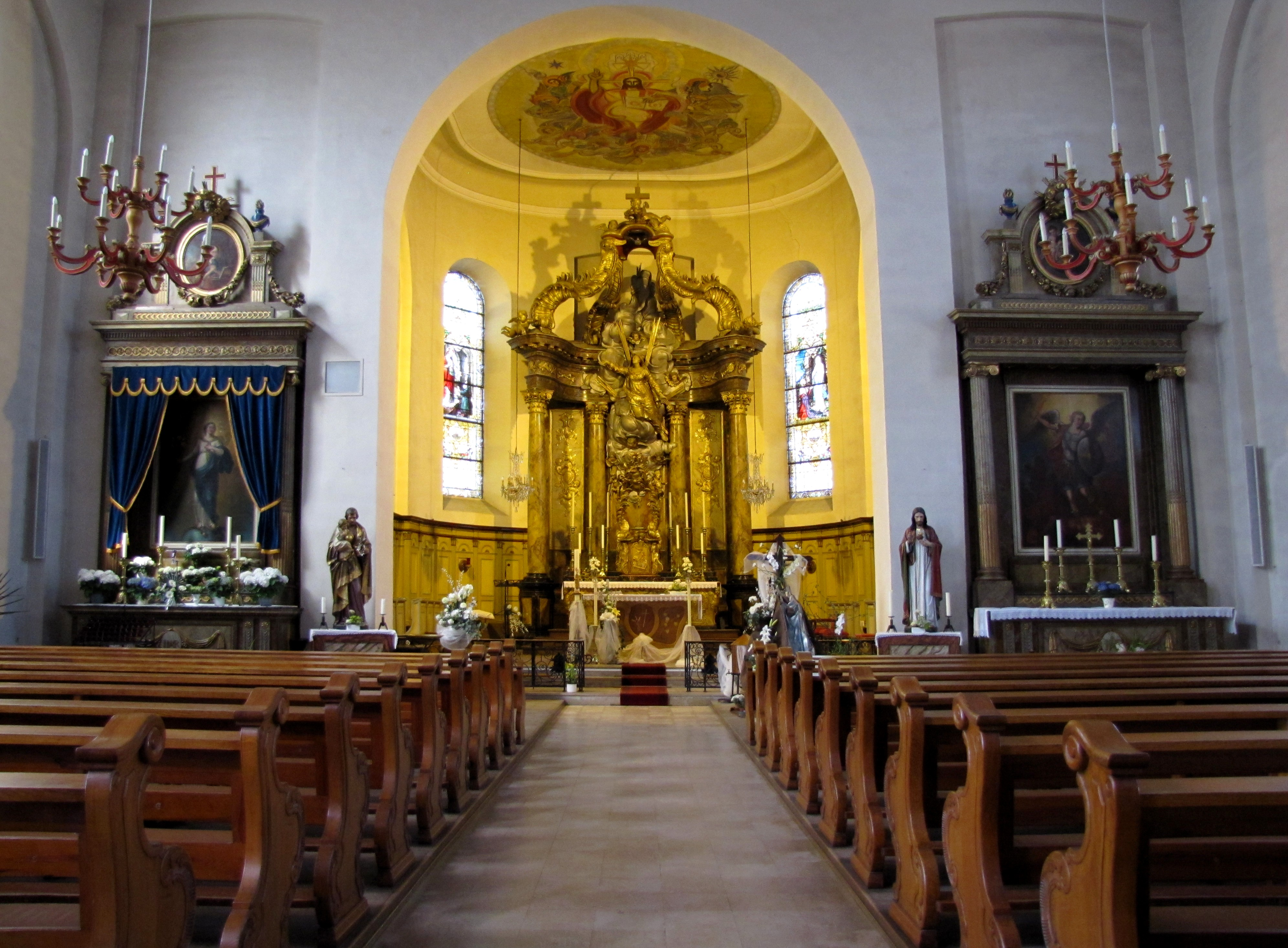 Alsace, Bas-Rhin, Weyersheim, Église Saint-Michel (PA00085235, IA00119652): Vue intérieure de la nef vers le chœur et les autels. Maître-autel (1745): This object is classé Monument Historique in the base Palissy, database of the French furniture patrimony of the French ministry of culture, under the references PM67000442 and IM67007098. Autels secondaires (XVIIIe): This object is classé Monument Historique in the base Palissy, database of the French furniture patrimony of the French ministry of culture, under the references PM67000445 and IM67007099.